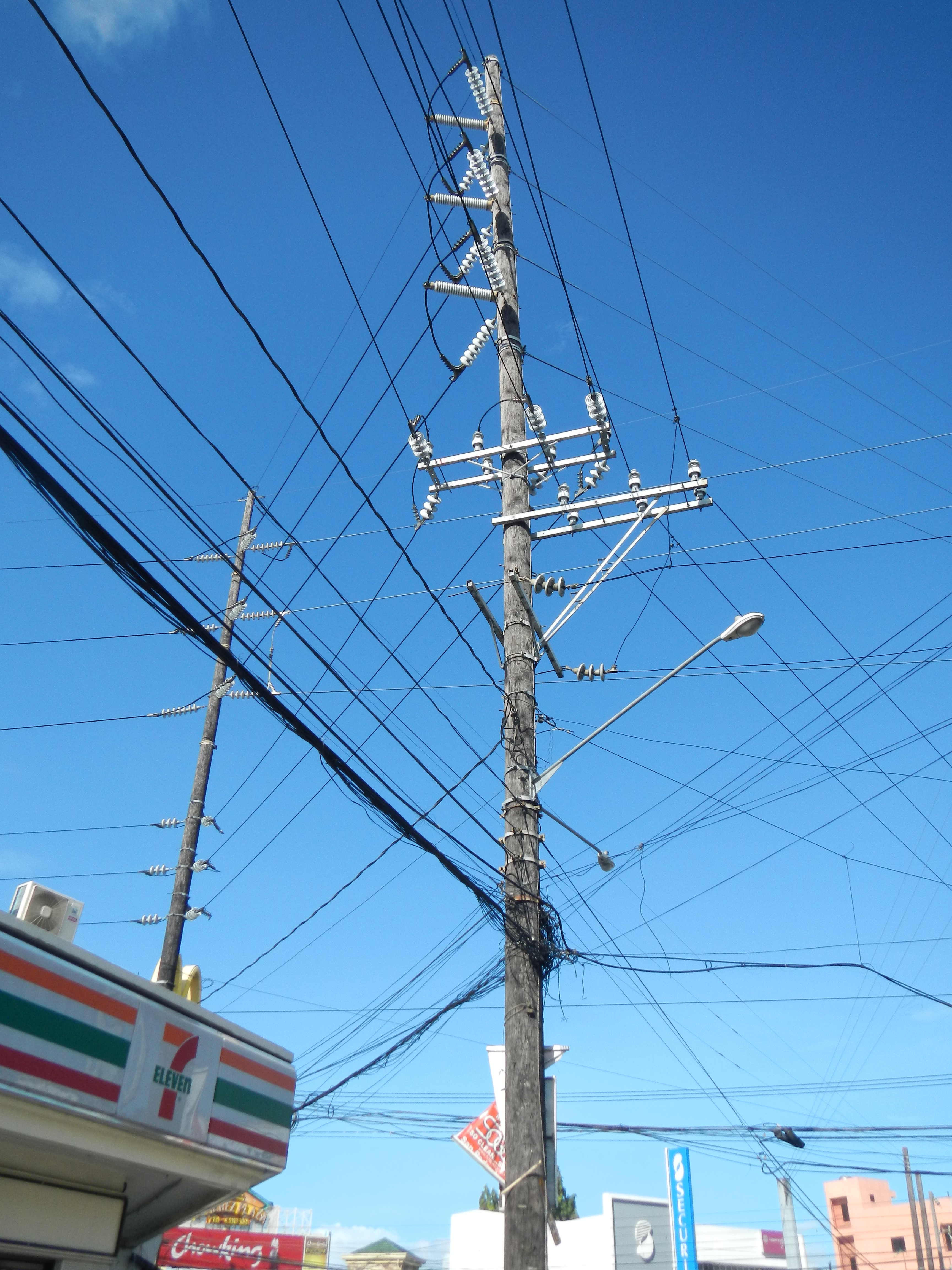 Upload Wizard photos -- (General description, 3-dimension angle by angle photography of this town, church & landmarks) -- Biñan [1] Biñan City - Ang Magpipinipig (Crisped rice[2] - Congressman Dans S. Fernandez and Mayor Lenlen Alonte Naguiat Foot Bridge Flyover, beside the Central Mall Biñan, Red Ribbon bakeshop, McDonald's, along Pan-Philippine Highway - Biñan [3] Biñan City, Laguna, and along the National Highway, the National Transmission Corporation[4] (National Power Corporation[5]), Filinvest South subdivision, Welcome Arch of Carmona, Cavite [6], Union Bank, BDO bank, Paseo de Carmona new building, Jollibee.